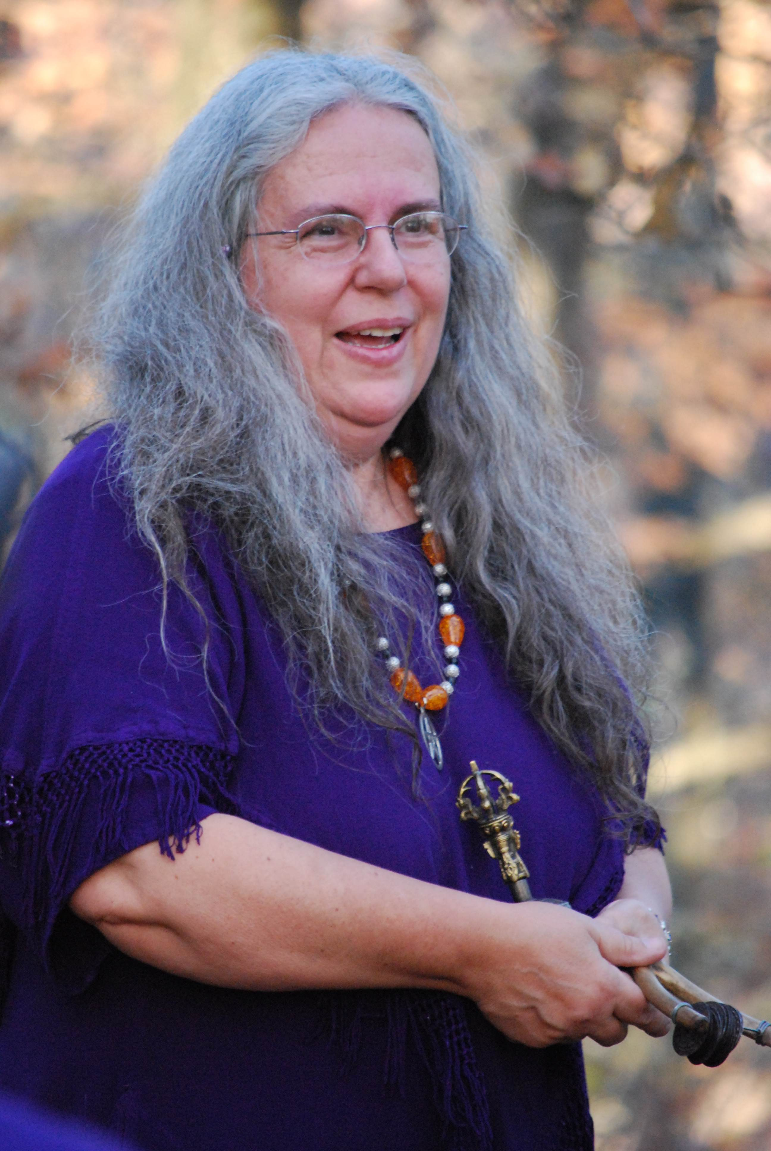 Selena Fox in October 2008, at Circle Sanctuary's Stone Circle